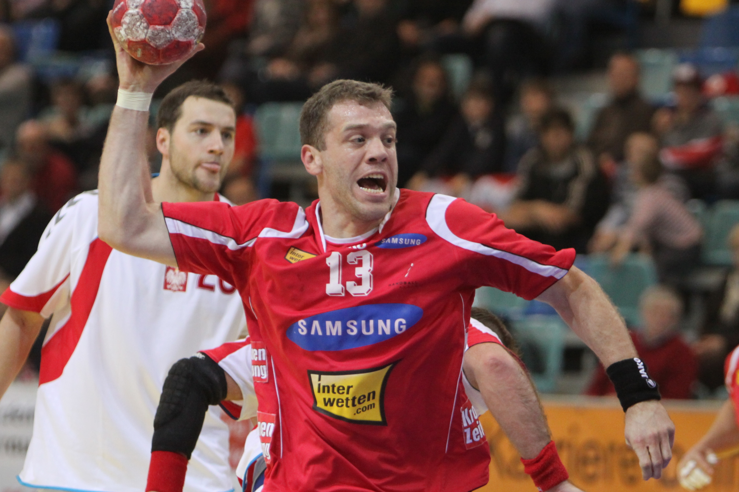 Matthias Günther (A1 Bregenz), Austria national handball team